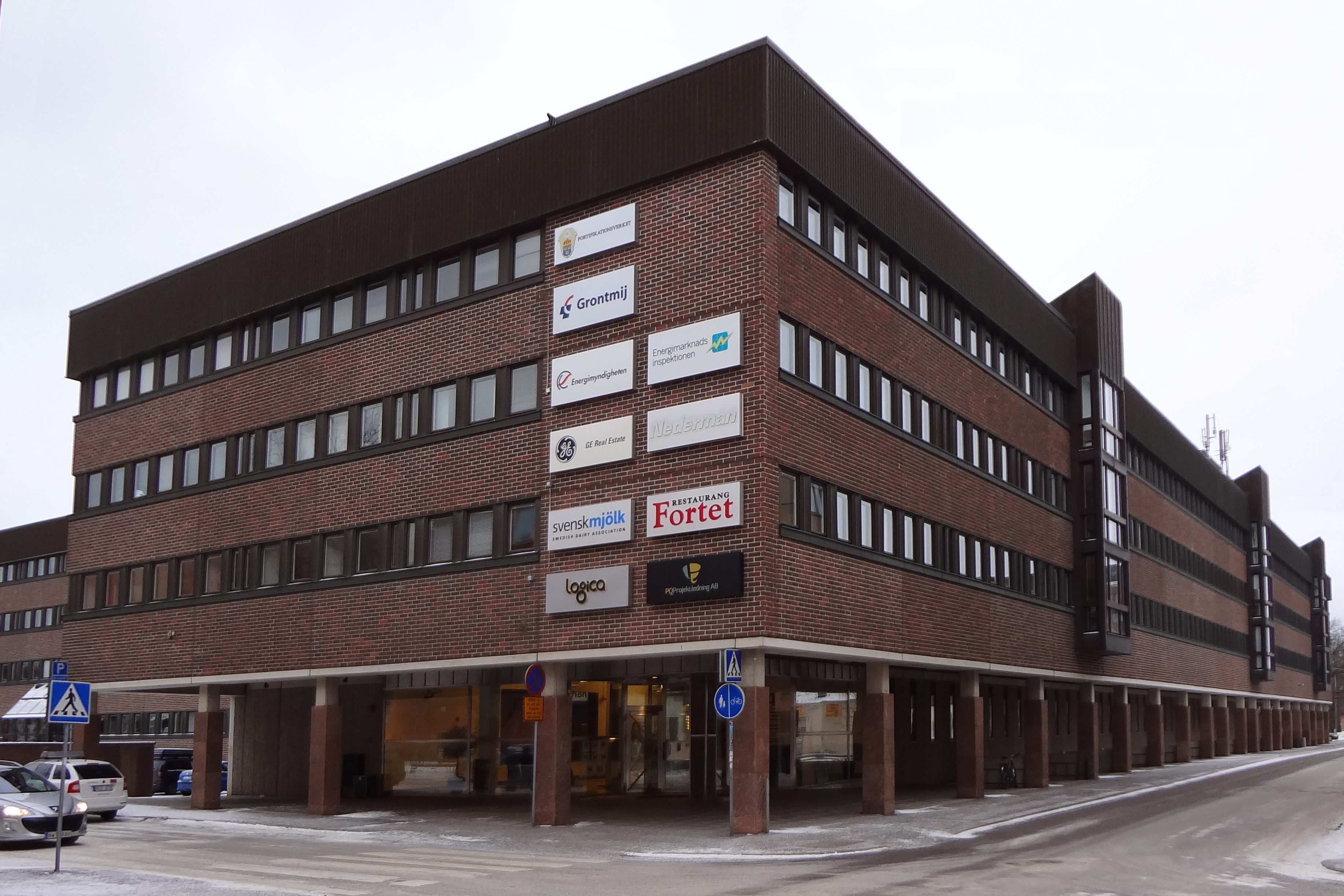 "Fortet" in Eskilstuna, Sweden.